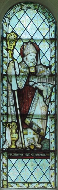 St Mary Magdalene, Tortington, Sussex - Window St Richard